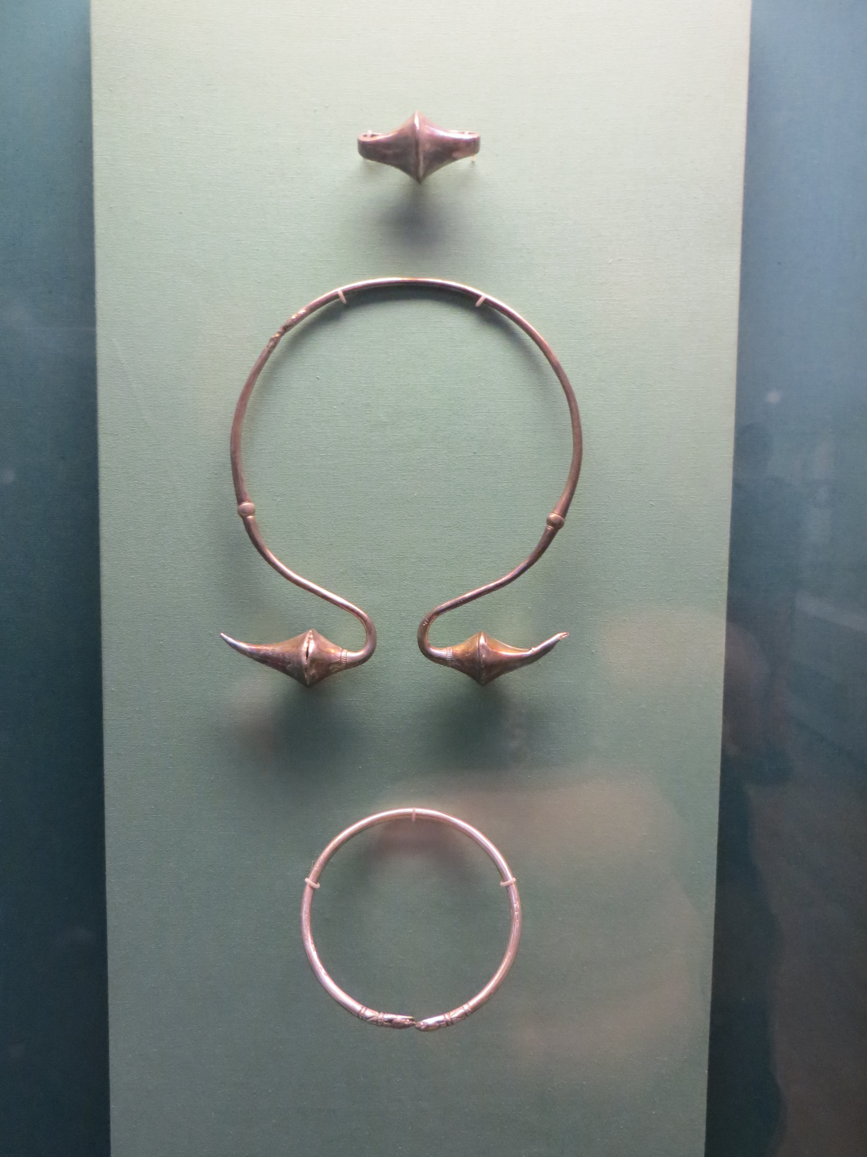 Items from the Cordoba Treasure in the British Museum